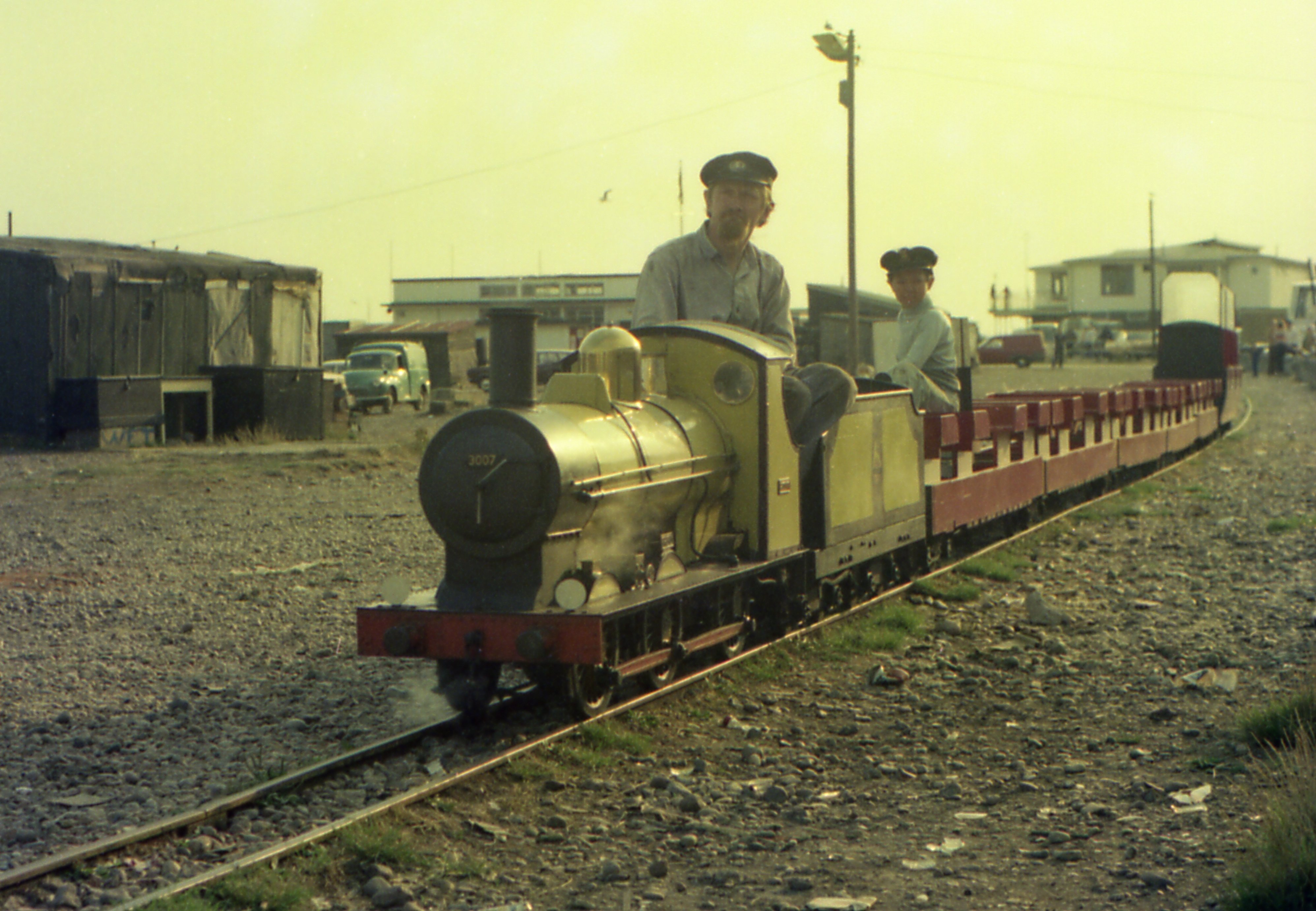 Steam days on the Hastings Miniature Railway. Train with 0-6-0 Firefly. Taken from an old fire damaged transparency. Camera: Olympus Pen F Half Frame SLR.